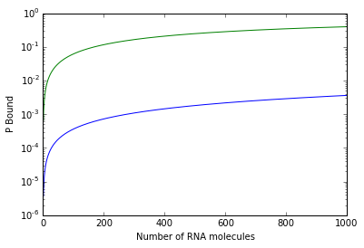 Probability of binding for the T7 (green) and Lac Ecoli (blue) promoters to RNA polymerase.